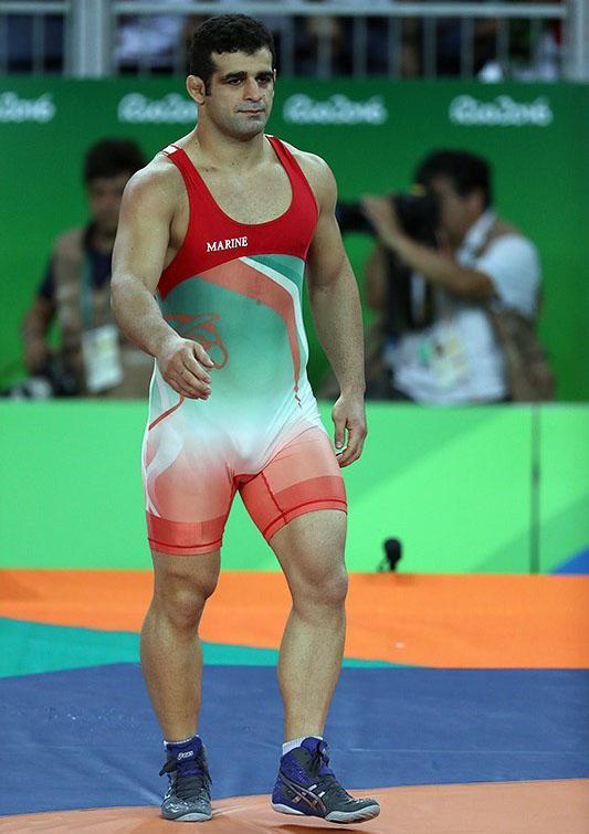 2016 Summer Olympics, Greco-Roman Wrestling 98 kg, Ghasem Rezaei from Iran